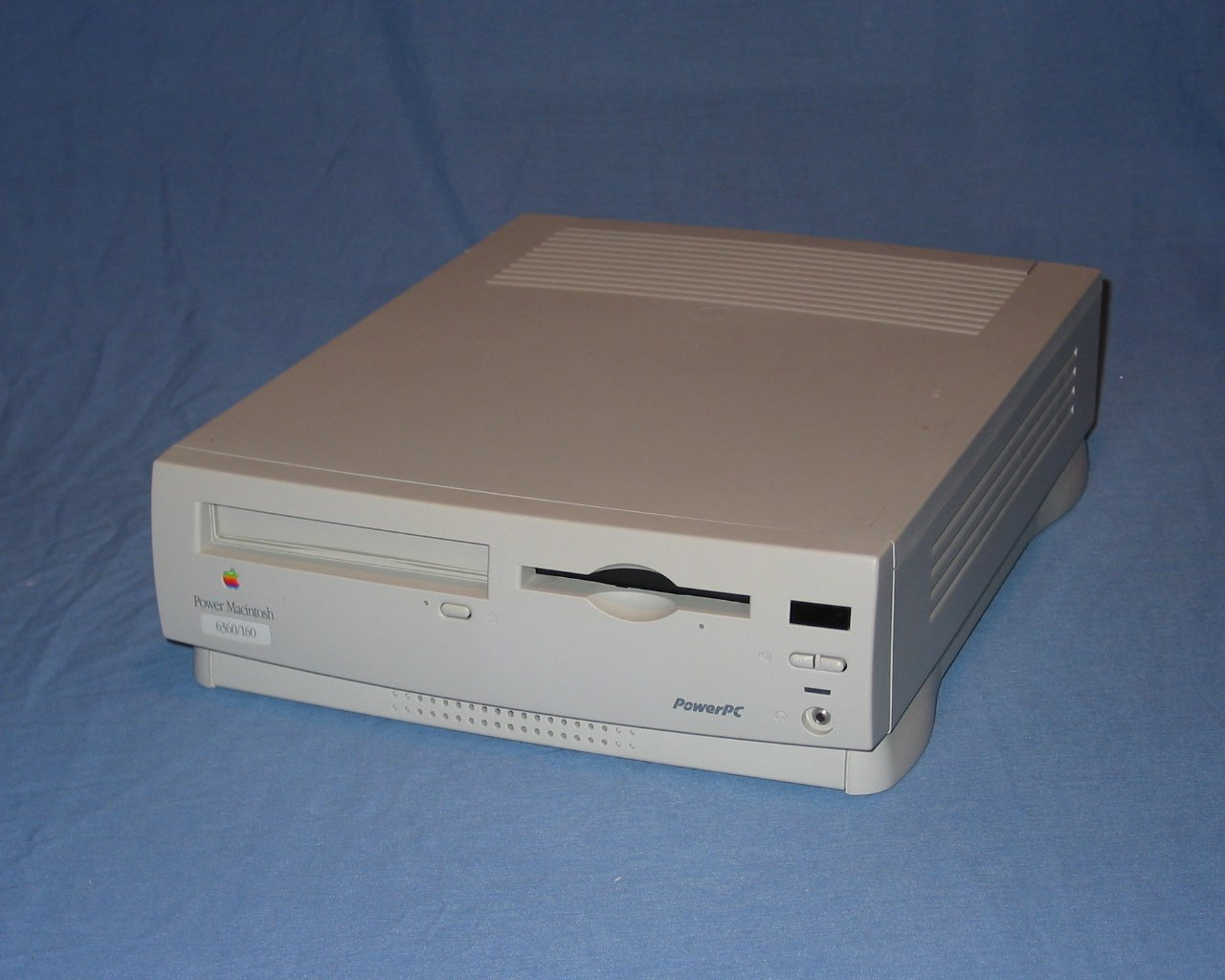 Front view of a Power Macintosh 6360/160